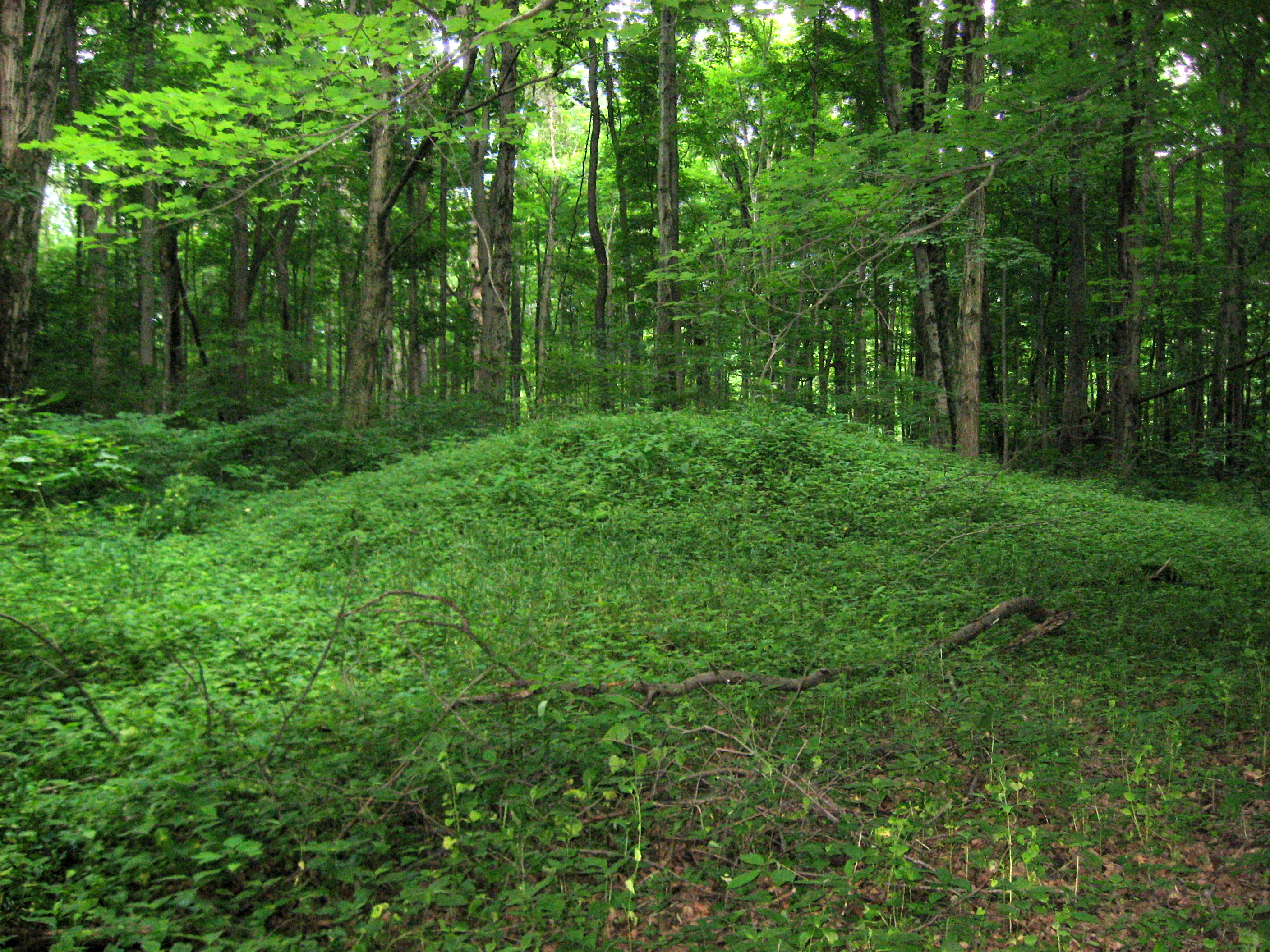 Northern side of the Orators Mound, located along the Inman Trail of Glen Helen Nature Preserve near Yellow Springs in Miami Township, Greene County, Ohio, United States. A work of the Adena culture, it was used as a podium for public speaking in the first decades after the arrival of white settlers. As a potential archaeological site, it is listed on the National Register of Historic Places.